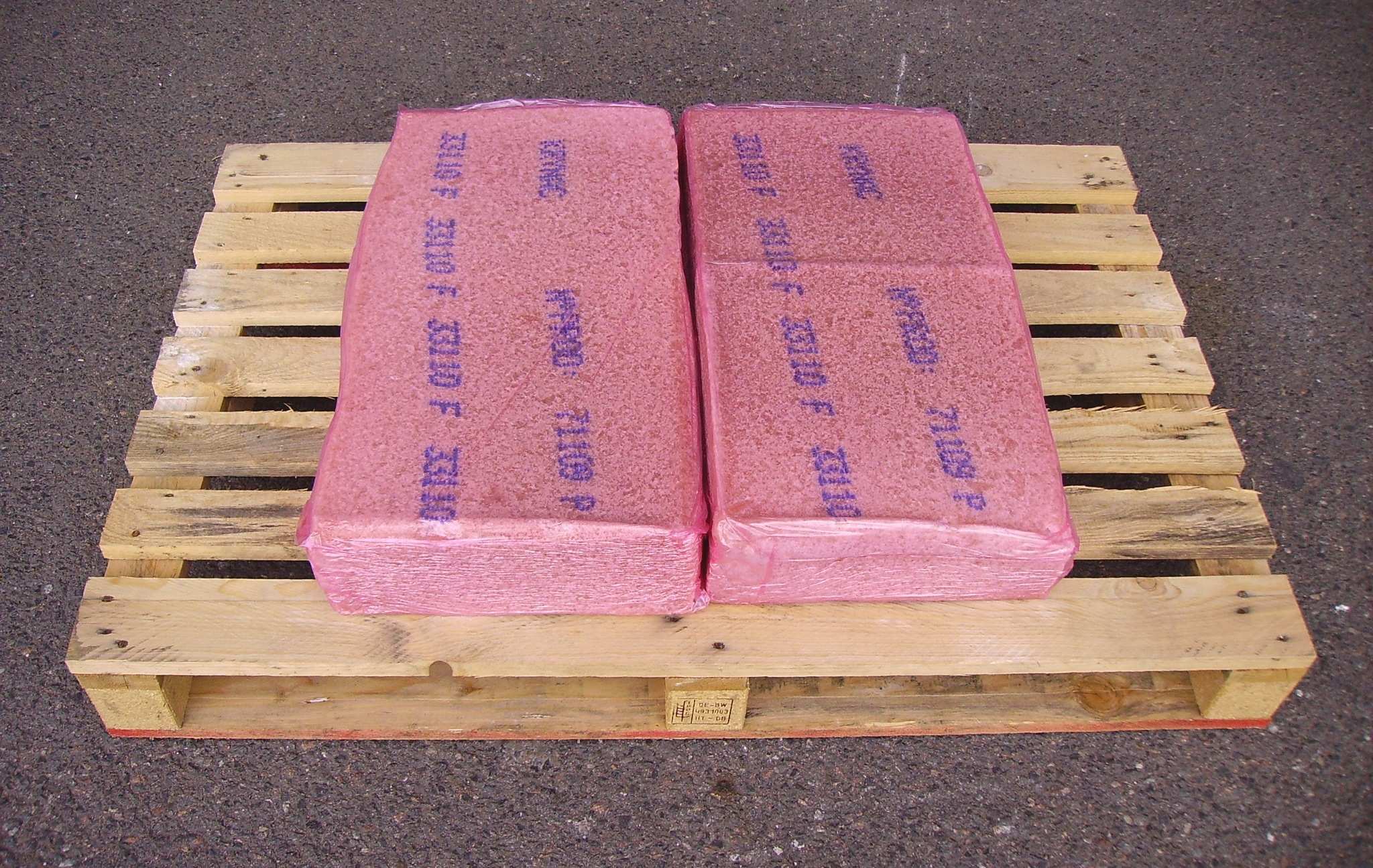 « Nitrile rubber » (butadiene-acrylonitrile copolymer, NBR) (Krynac® 33110 F grade: cold polymerized, acrylonitrile units content: 33%). Supply form: 25 kg bale, wrapped in dispersible colorful PE film to avoid exposure light.